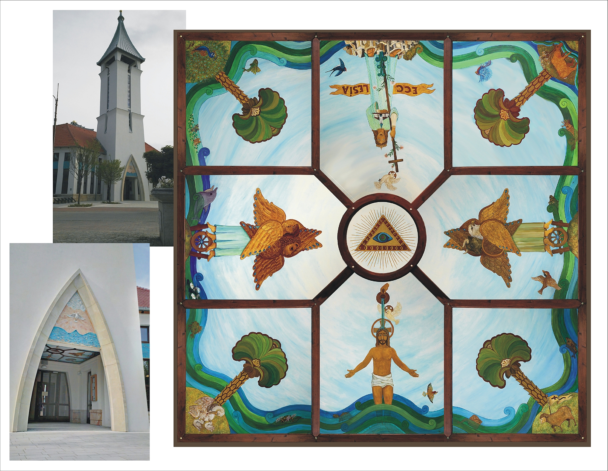 Zoltan Joo (1956-):Painted coffered ceiling (2016, publlic art, building decoration) above the front door of Holy Spirit Church Veresegyház, Hungary